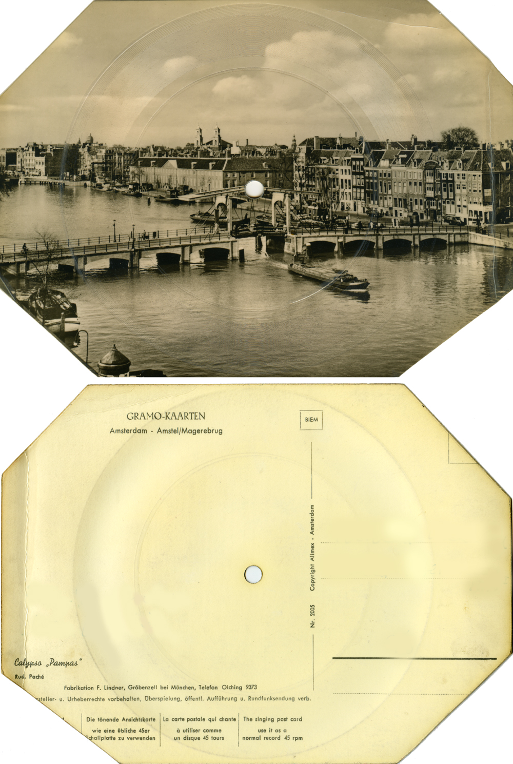 The singing postcard with an image of the Amsterdam "Magere Brug" (Skinny Bridge). This postcard is playable as a record.